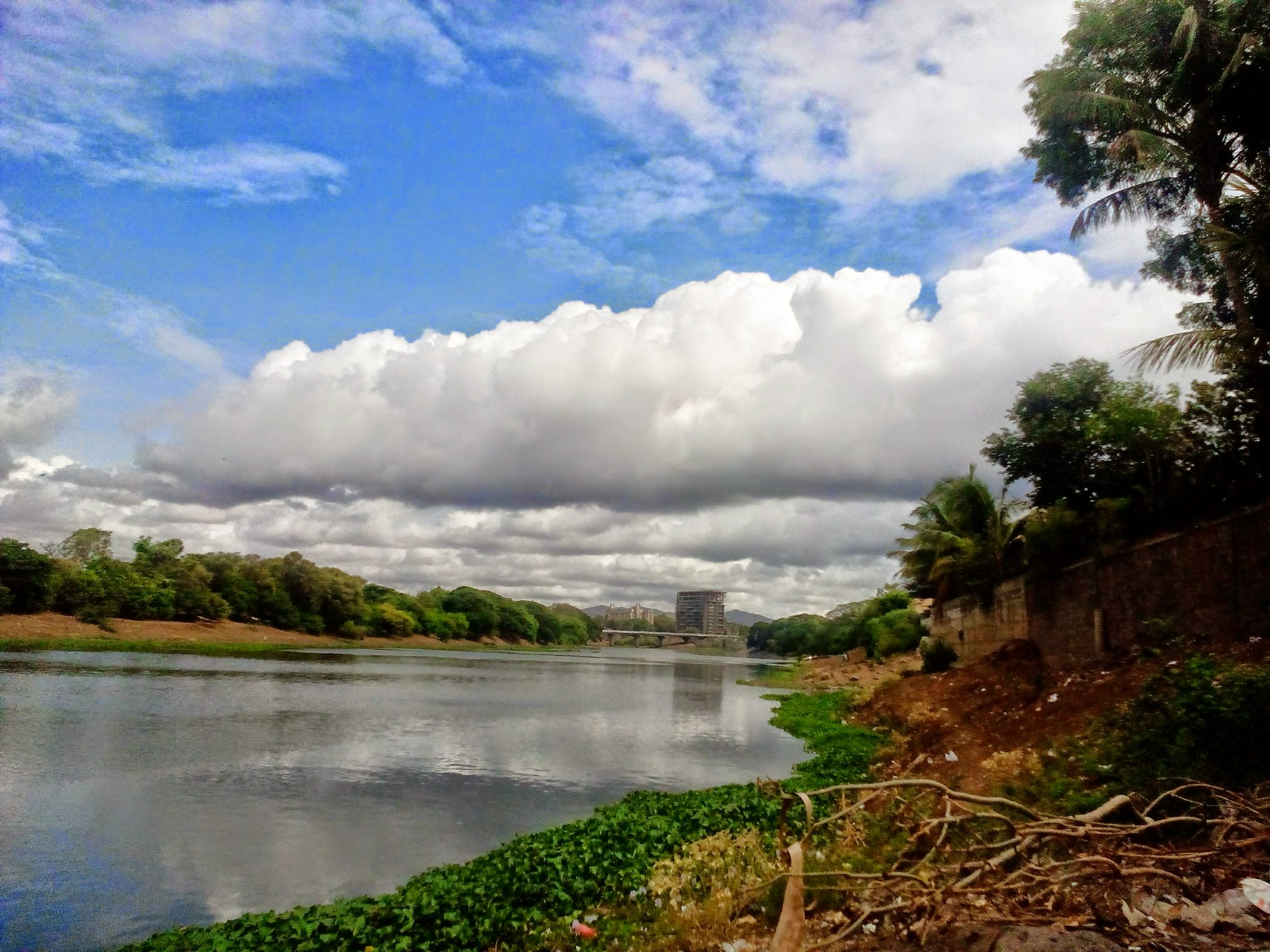 Mula River, Pune; as shot from the west bank at Wakdewadi